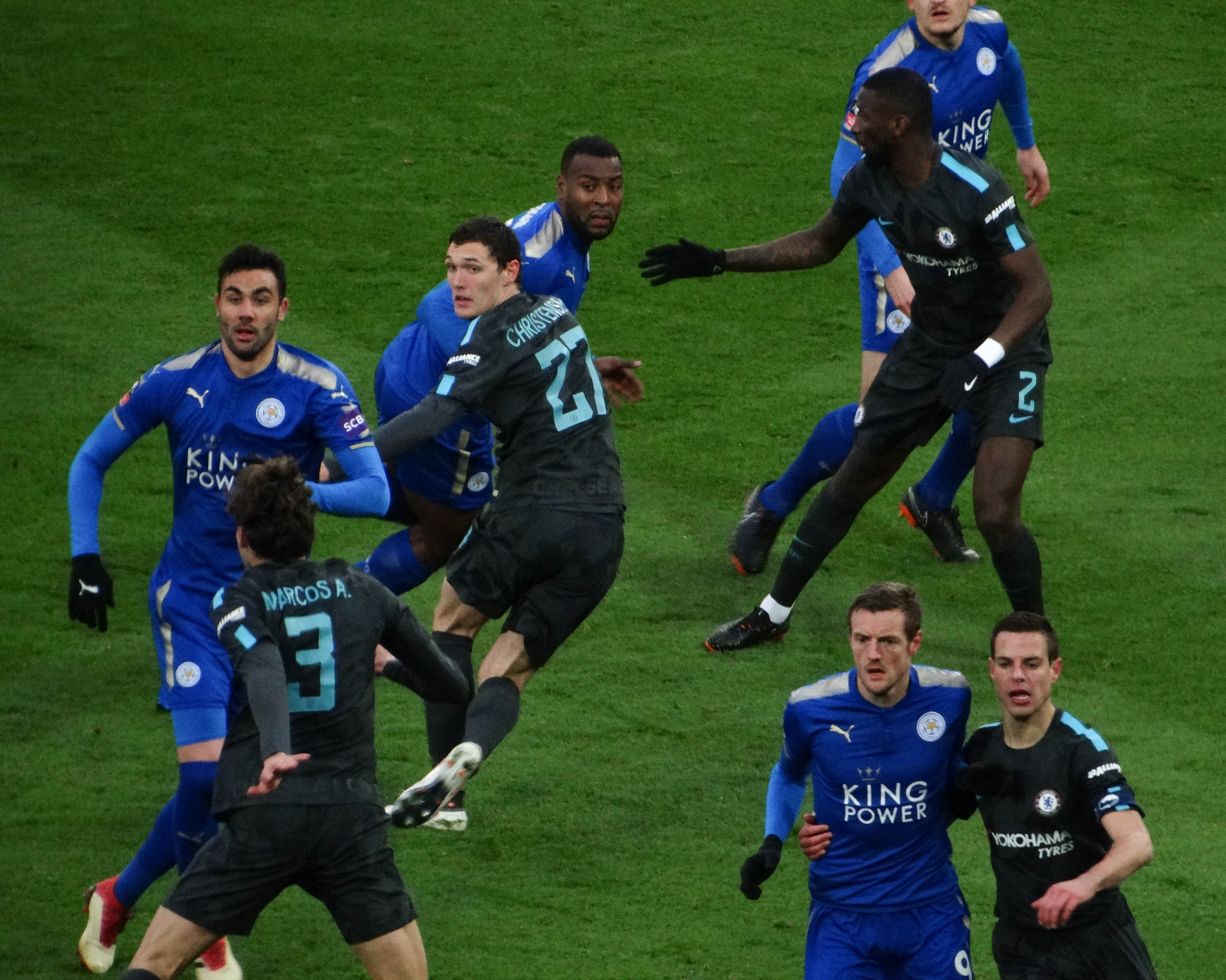 FA Cup QF 18.3.18